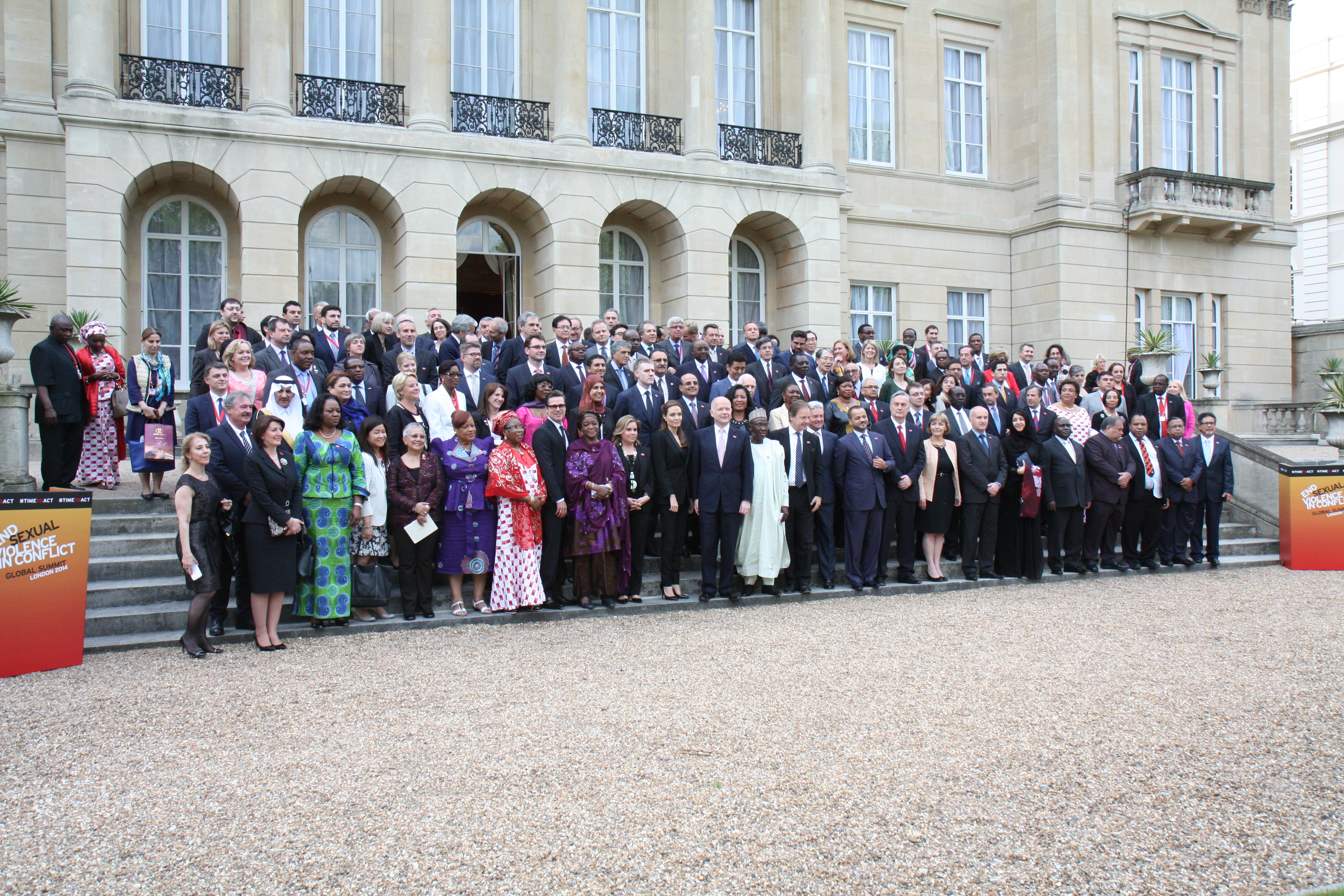 Group photograph of delegates at the end of Ministers' Day at the Global Summit to End Sexual Violence in Conflict, 12 June 2014.